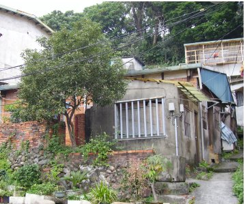 photo by winertai treasure hill,Taipei 2006/02/16 台北